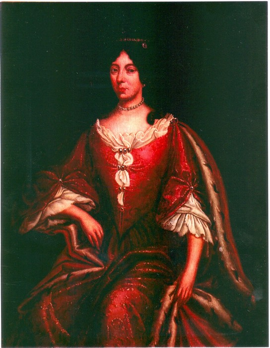 Portrait of Anna Salome von Salm-Reifferscheidt (1622-1688)